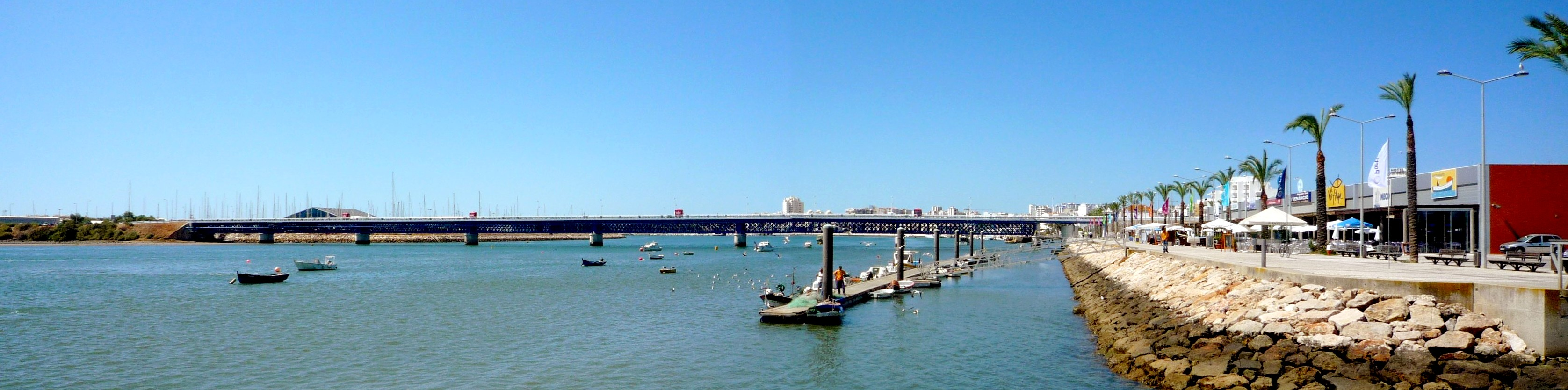 The iron road bridge over the Rio Arade between Parchal (left) and Portimão in Portugal. Viewed from 37°08′30″N 8°31′50″W / 37.141606°N 8.530583°W looking south. See this explanation of why there are four red booths on the bridge. More images.